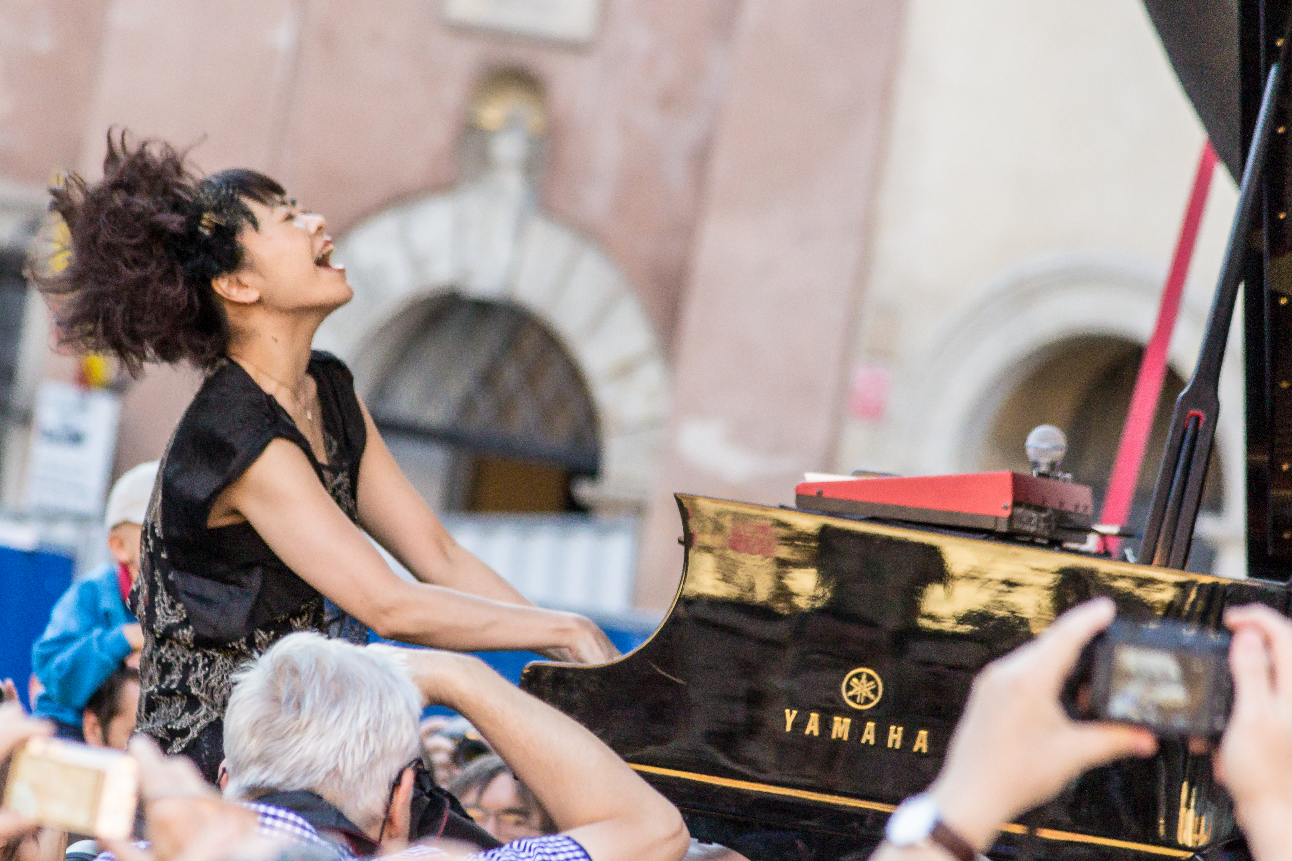 Hiromi Uehara during Jazz na Starowce festival in Warsaw, 2013-07-20.